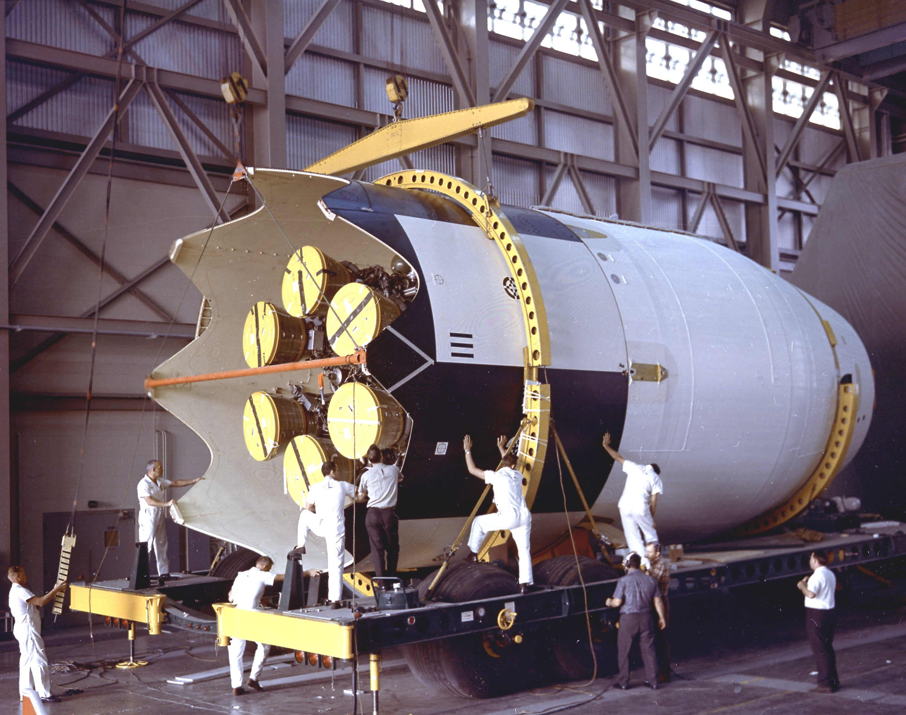 The Saturn I S-IV stage (second stage) assembly for the SA-9 mission underwent the weight and balance test in the hanger building at Cape Canaveral. The S-IV stage had six RL-10 engines which used liquid hydrogen and liquid oxygen as its propellants arranged in a circle. Each RL-10 engine produced a thrust of 15,000 pounds, a total combined thrust of 90,000 pounds. The SA-9 mission was the first Saturn with operational payload Pegasus I, meteoroid detection satellite, and launched on February 16, 1965.